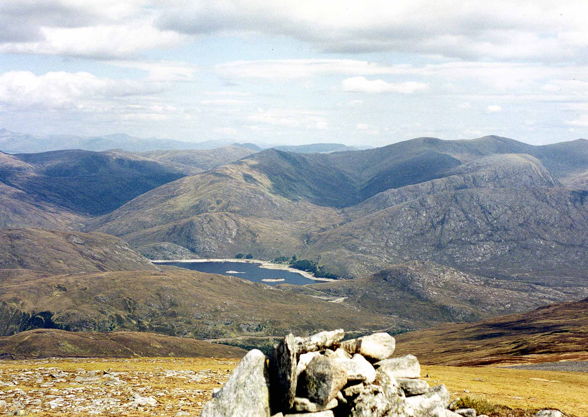 Personal picture taken by Mick Knapton